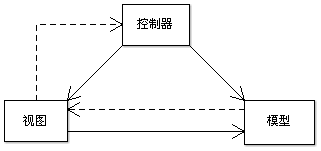 Model View Controller